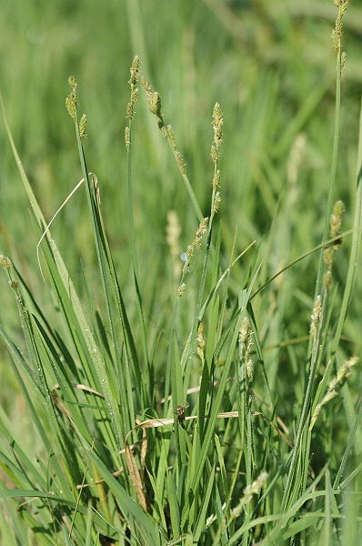 Picture taken in Commanster, Belgian High Ardennes . Species: Carex curta